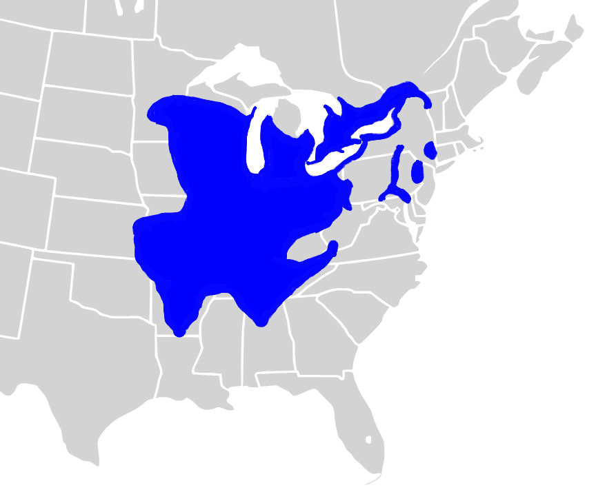 Range map of the Northern Map Turtle (Graptemys geographica), based on C.H. Ernst and J.E. Lovich. (2009) "Turtles of the United States and Canada. 2nd Ed." Washington: Smithsonian Institute Press, pg 293-302